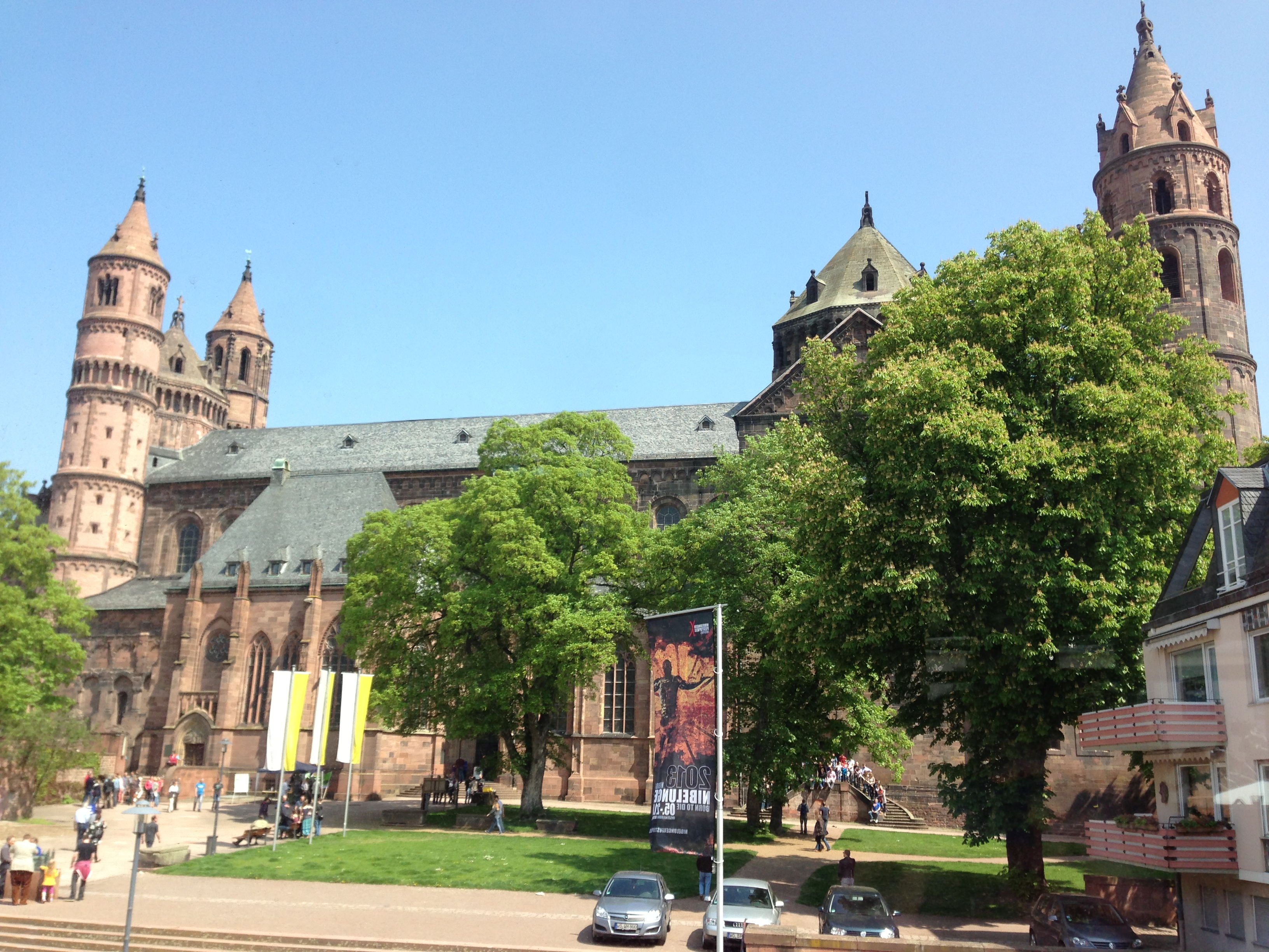 Worms cathedral